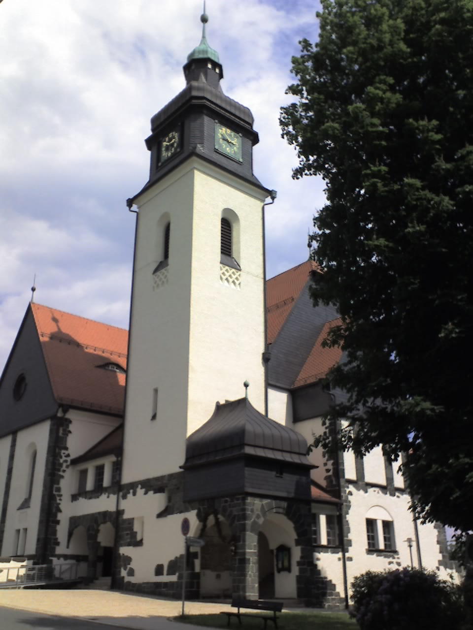 The Luther Church at Bad Steben (Germany)